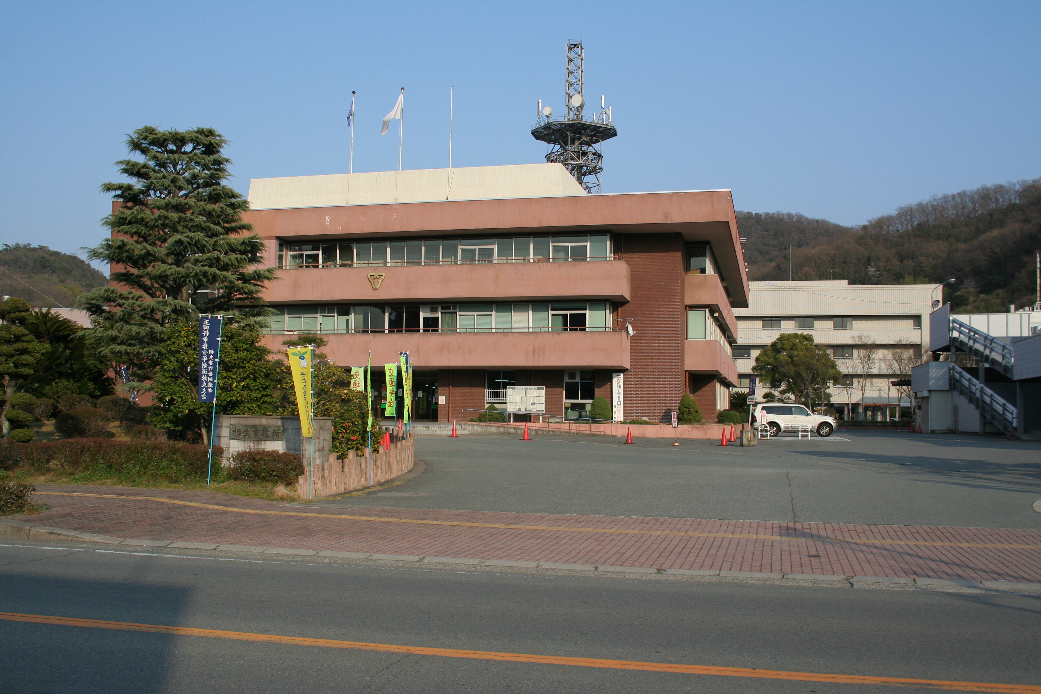 Aioi ｃity office in Aioi City, Hyogo, Japan.